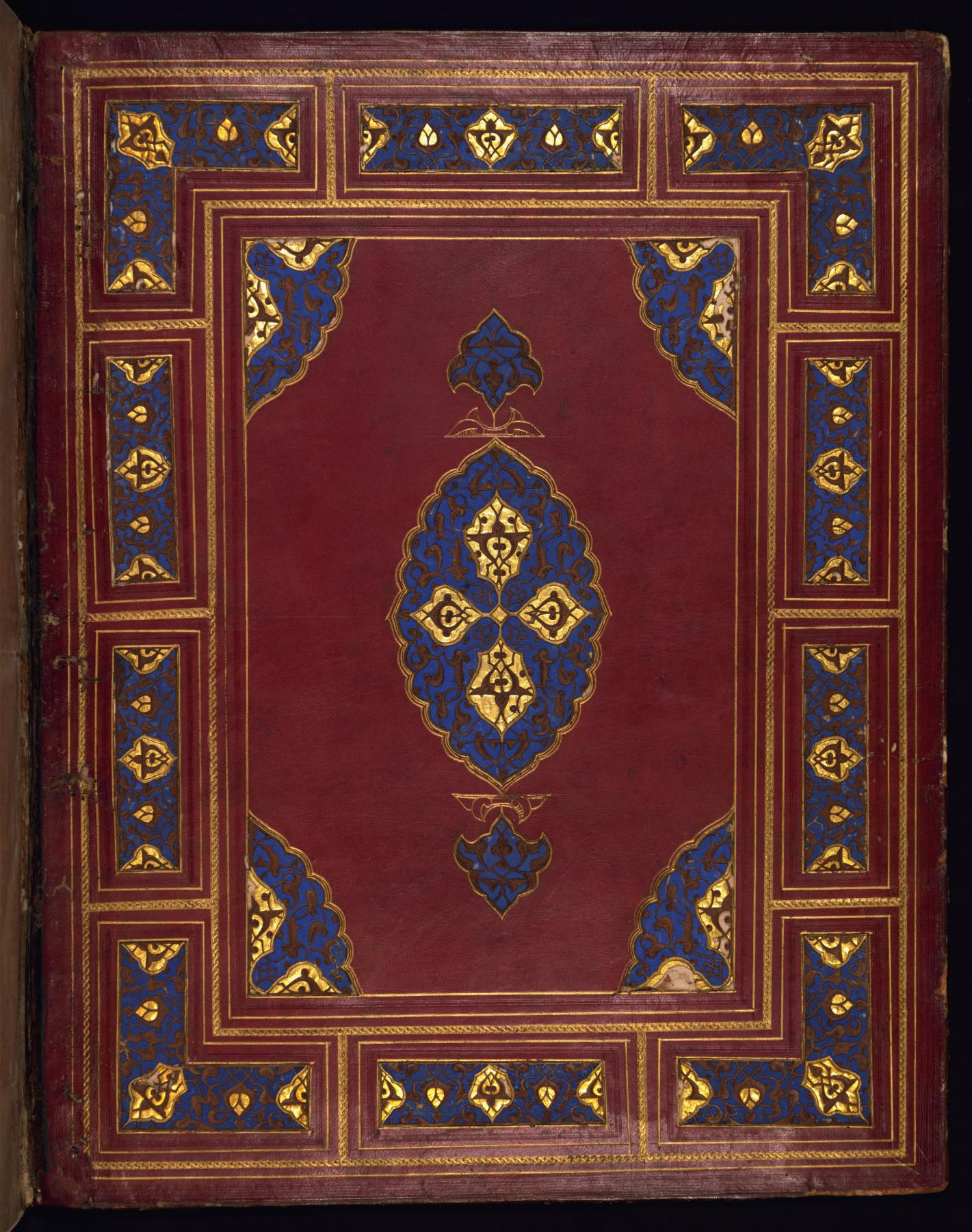 This original binding from Walters manuscript W.563 is composed of brown, gold-tooled leather (with a flap). The binding has a central lobed oval with pendants and cornerpieces, all with floral motifs, and a large border comprised of rectangular pieces with floral motifs. The doublures of reddish-brown leather are of similar design with filigree work on a blue ground. The fore-edge flap is inscribed with verses 77-80 from chapter 56 (Surat al-waqi'ah).